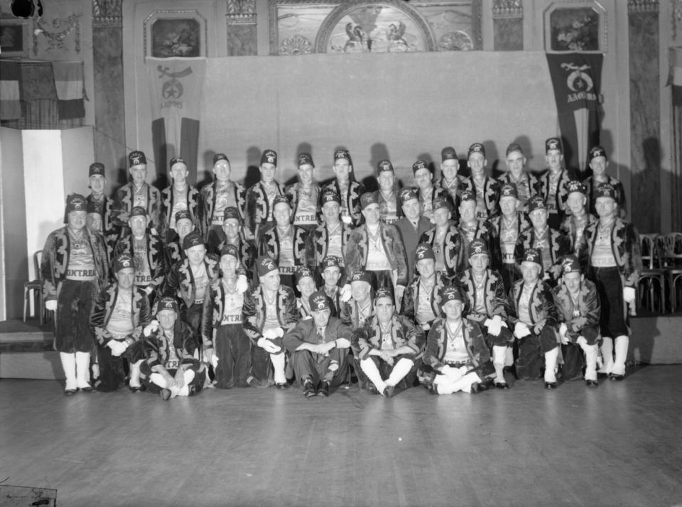 We see the members of the Arabic patrol Karnak Temple Mystic Shrine of Sherbrooke Street West, Montreal. They are wearing fez on which are represented the sword, the crescent and star.